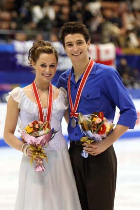 2007 NHK Trophy - Tessa Virtue and Scott Moir